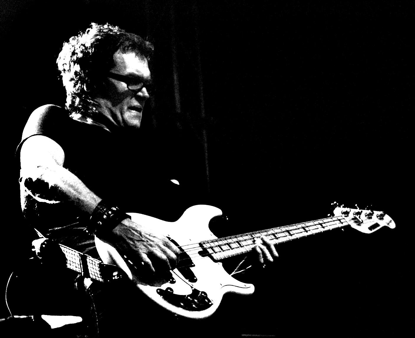 Glenn Hughes playing at Tahiti-festivalen, Kristiansund, Norway. 26 June 2008.